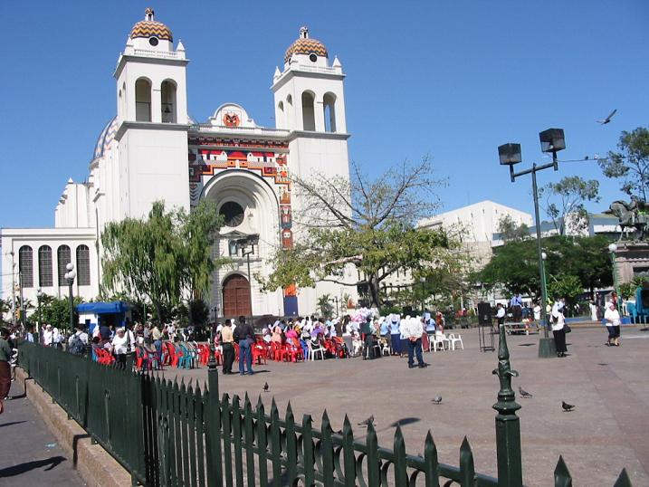 National Cathedral of El Salvador.